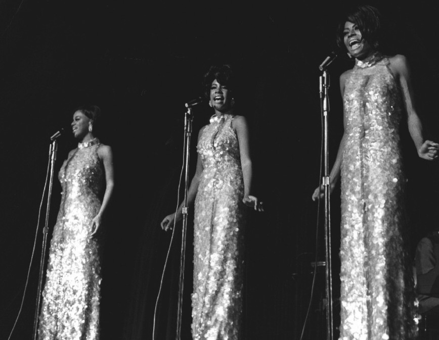 Photo of The Supremes performing at the Frontier Hotel in Las Vegas. L-R: Cindy Birdsong, Mary Wilson, and Diana Ross.